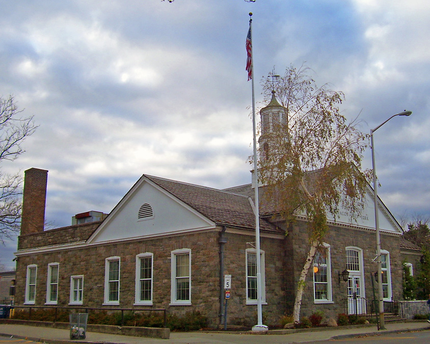 Photographed by Daniel Case 2006-11-18